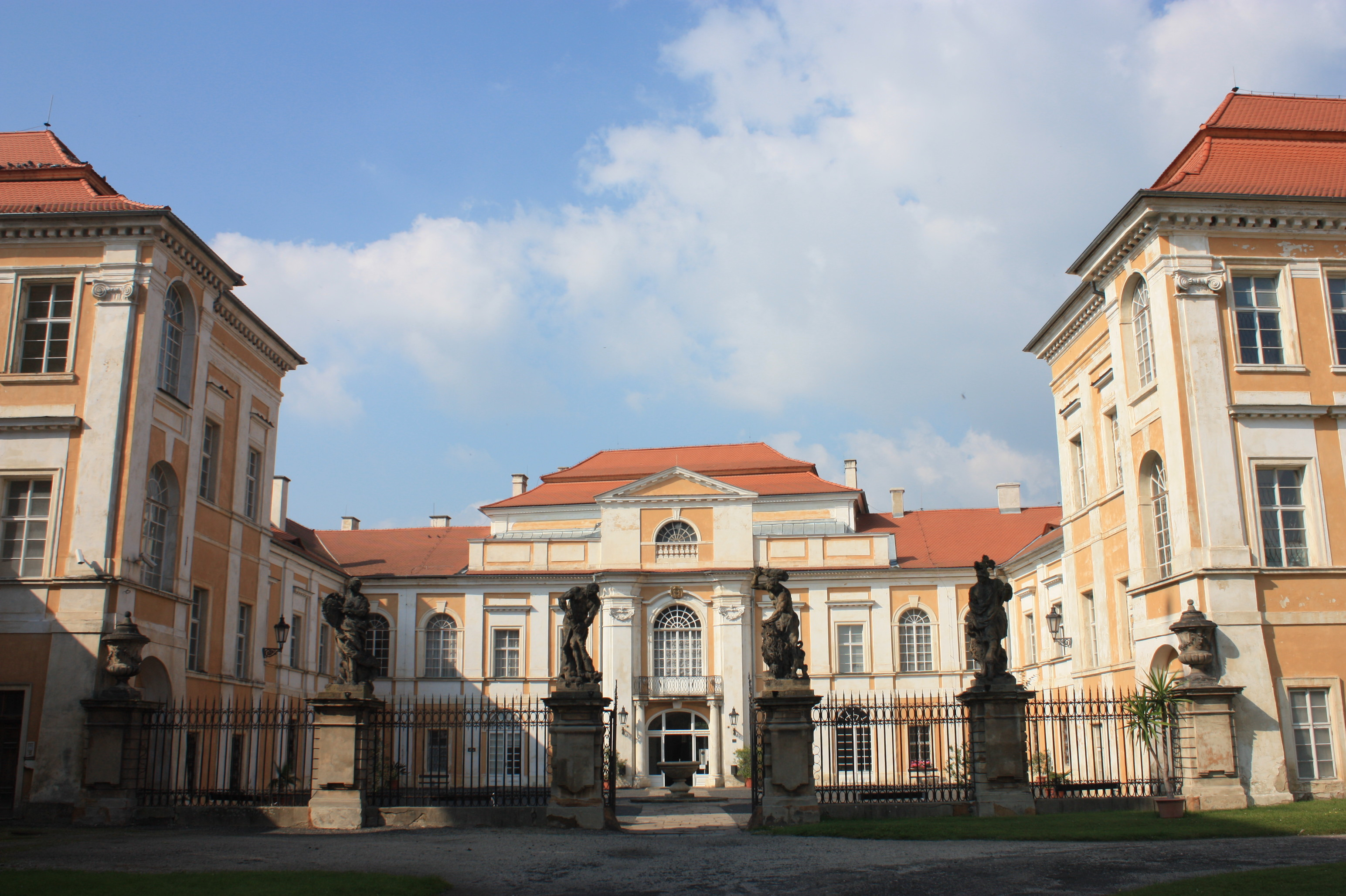 Duchcov Castle, Czech Republic